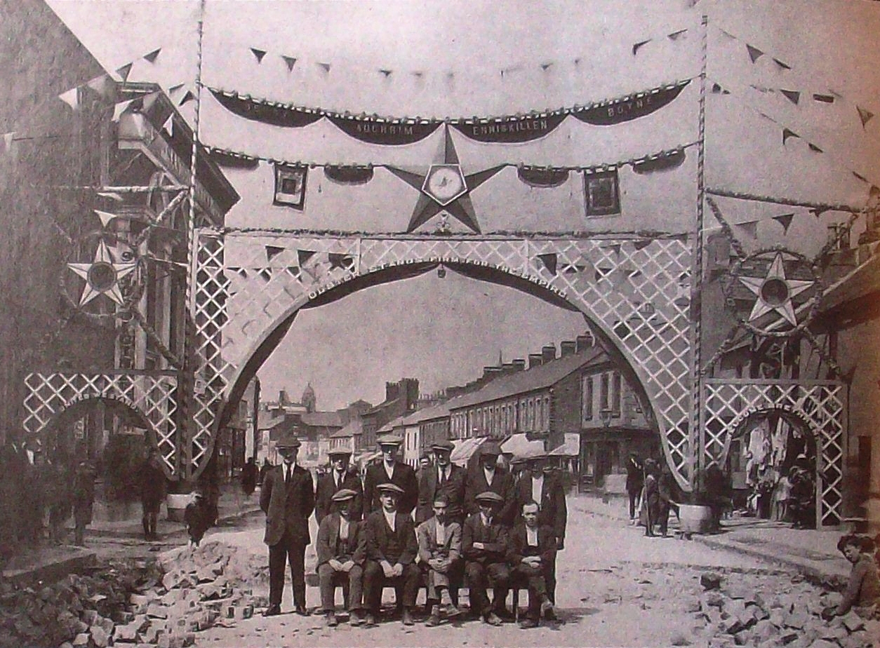 An Orange arch in Sandy Row, Belfast, circa 1920.